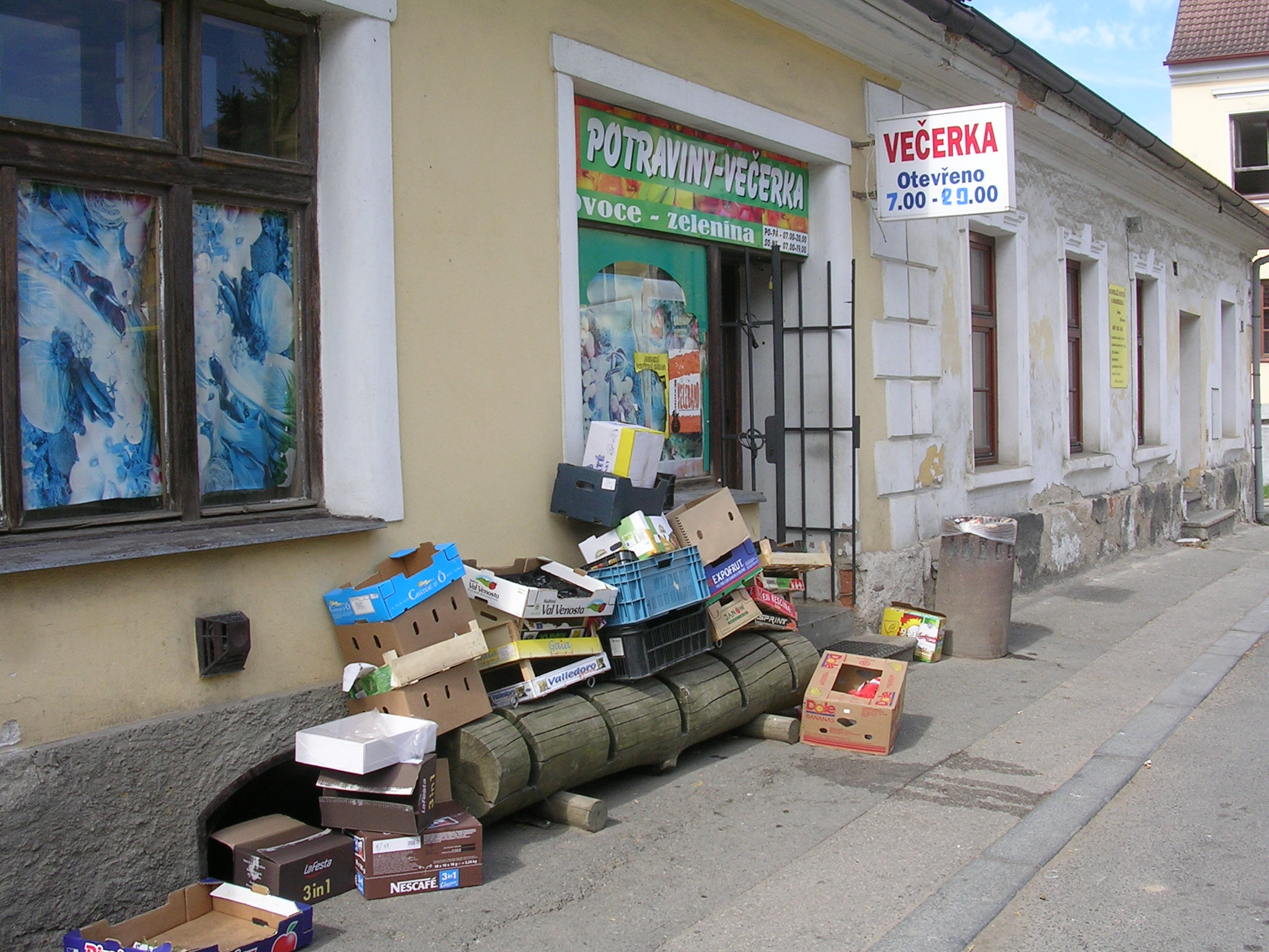 Prčice, Sedlec-Prčice, Příbram District, Central Bohemian Region, the Czech Republic. Vítek's Square near Benešovská street, an vietnamese shop.